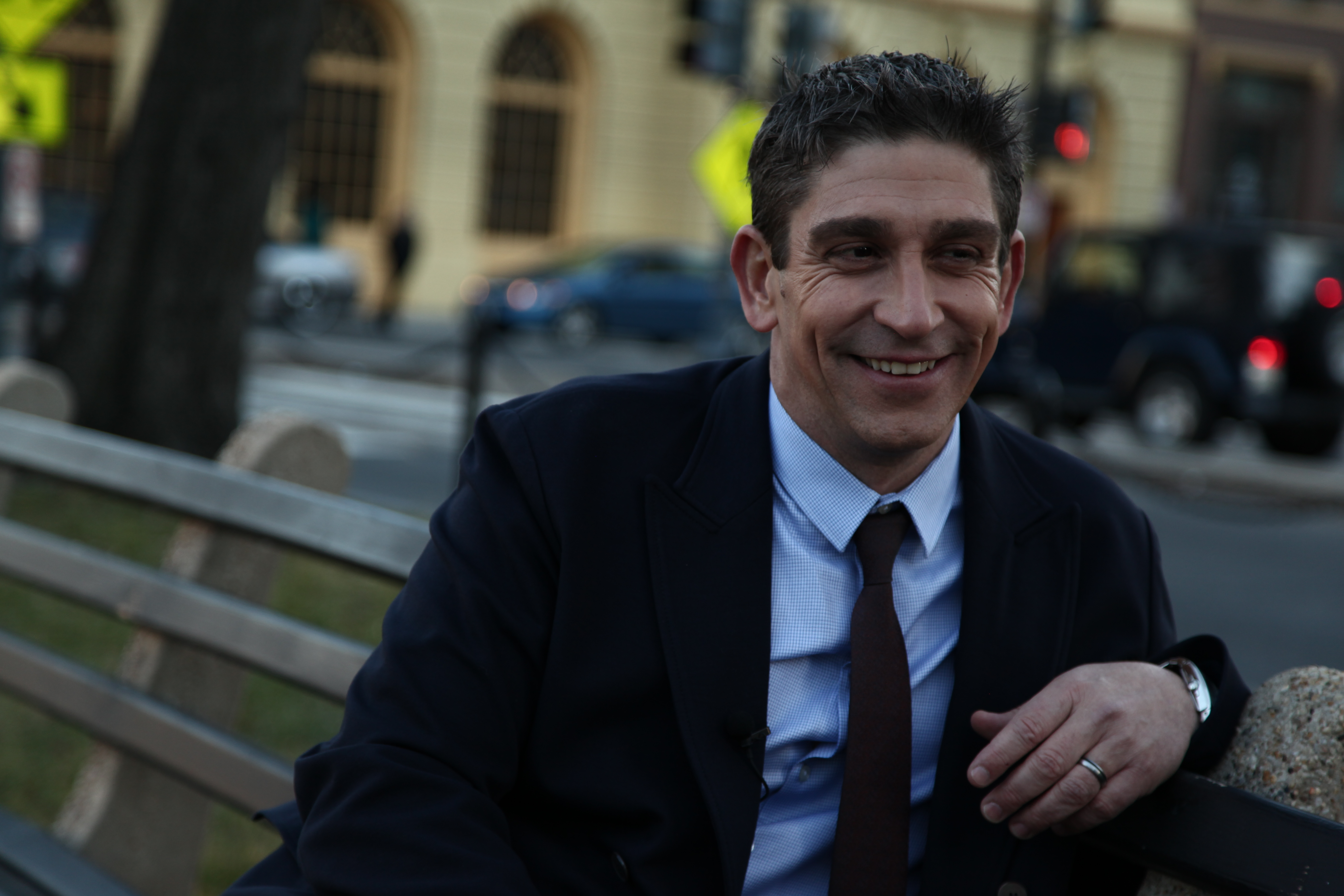 Richard Blanco (born February 15, 1968) is an American poet and teacher. The fifth poet to read at an inauguration, he was the inaugural poet for Barack Obama's second inauguration. (This picture was taken the day before the inauguration day)